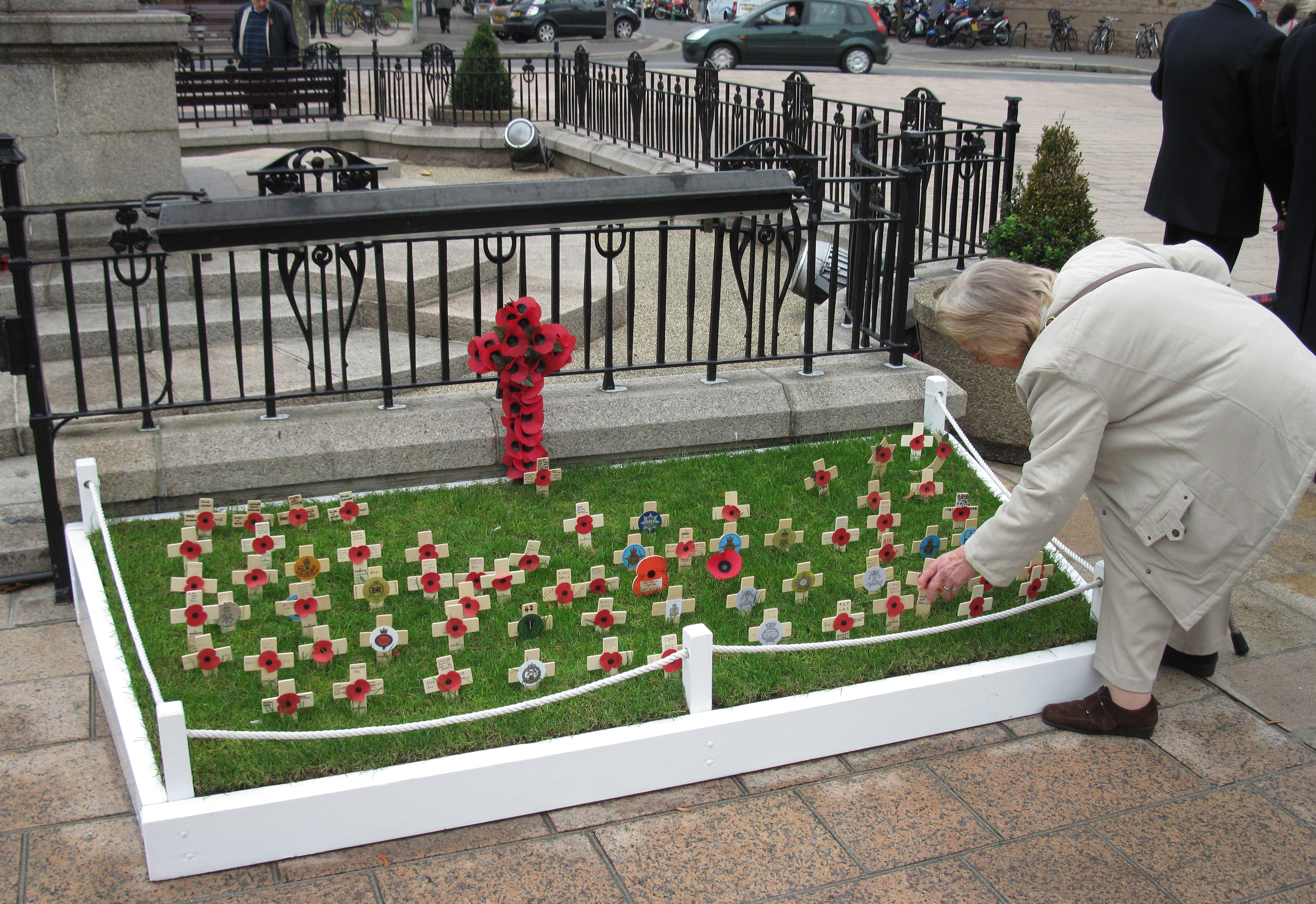 Remembrance Day ceremony, 11 November 2011, Saint Helier, Jersey